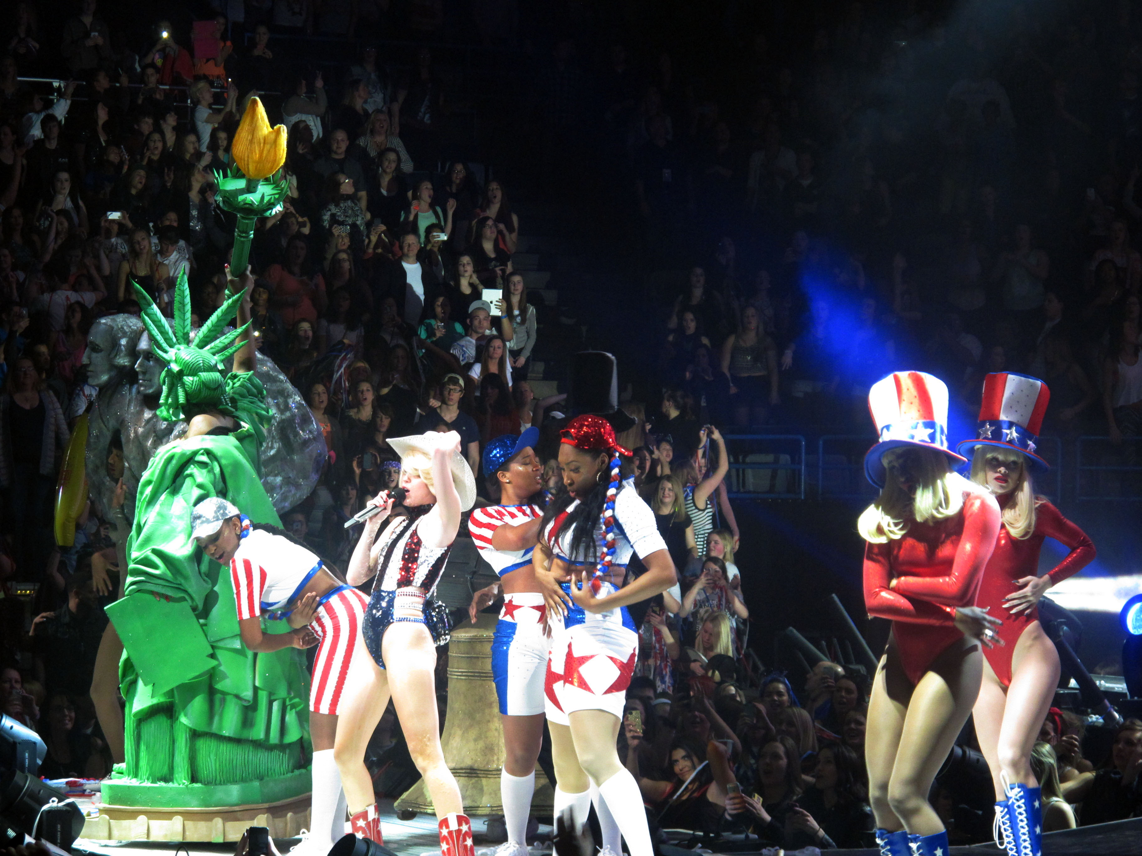 Miley Cyrus performing "Party in the U.S.A." during her Bangerz Tour, 2014